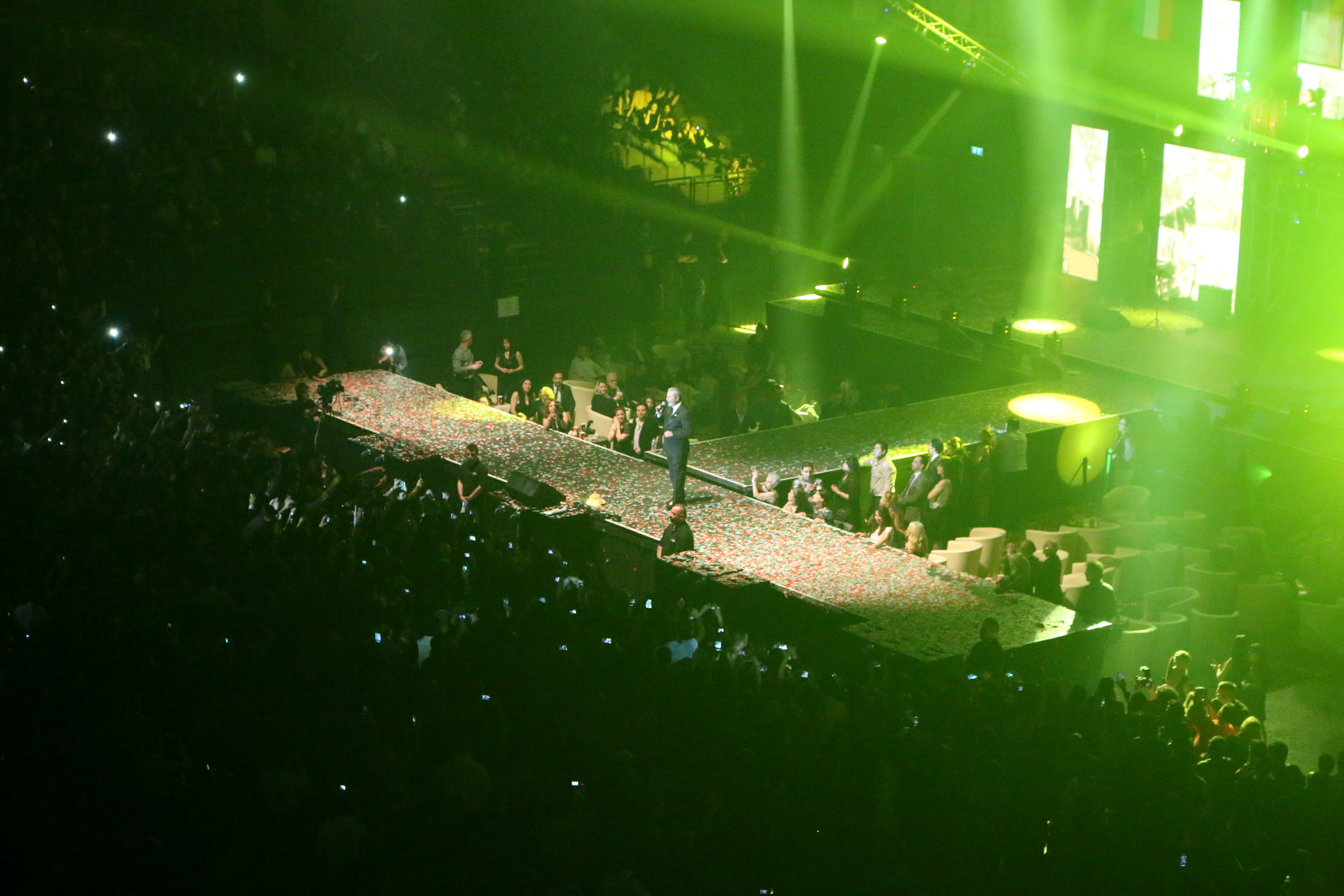 Sattar, Persian pop singer at Nowruz concert. Oberhausen Arena, March 2014 - Photo: Persian Dutch Network